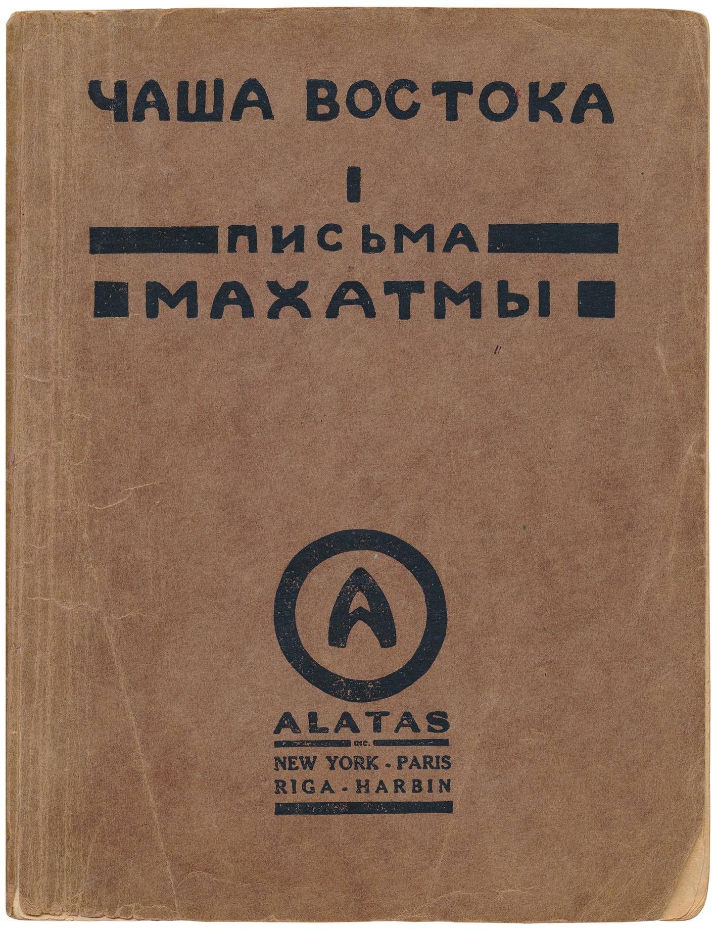 Cover of the book "Chasha Vostoka. I. Pisma Mahatmy. Translated by Iskander Hanum (Helena Roerich), Alatas, 1925"